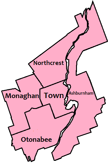 Map of Peterborough, Ontario's wards